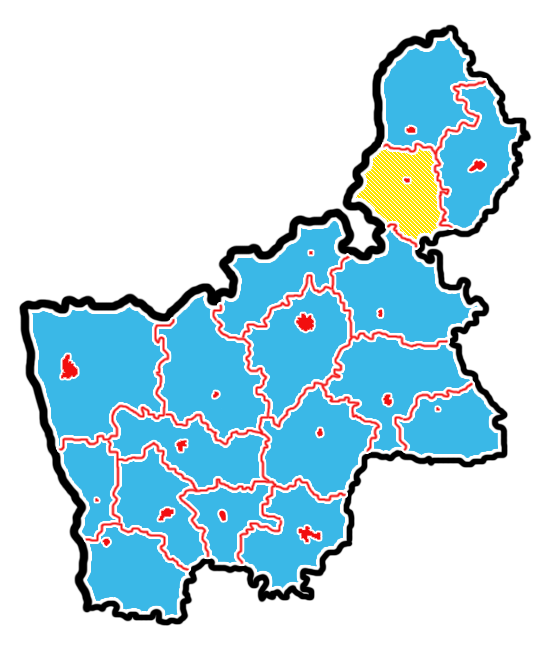 Map of Grodno Oblast, Oshmyany Region.